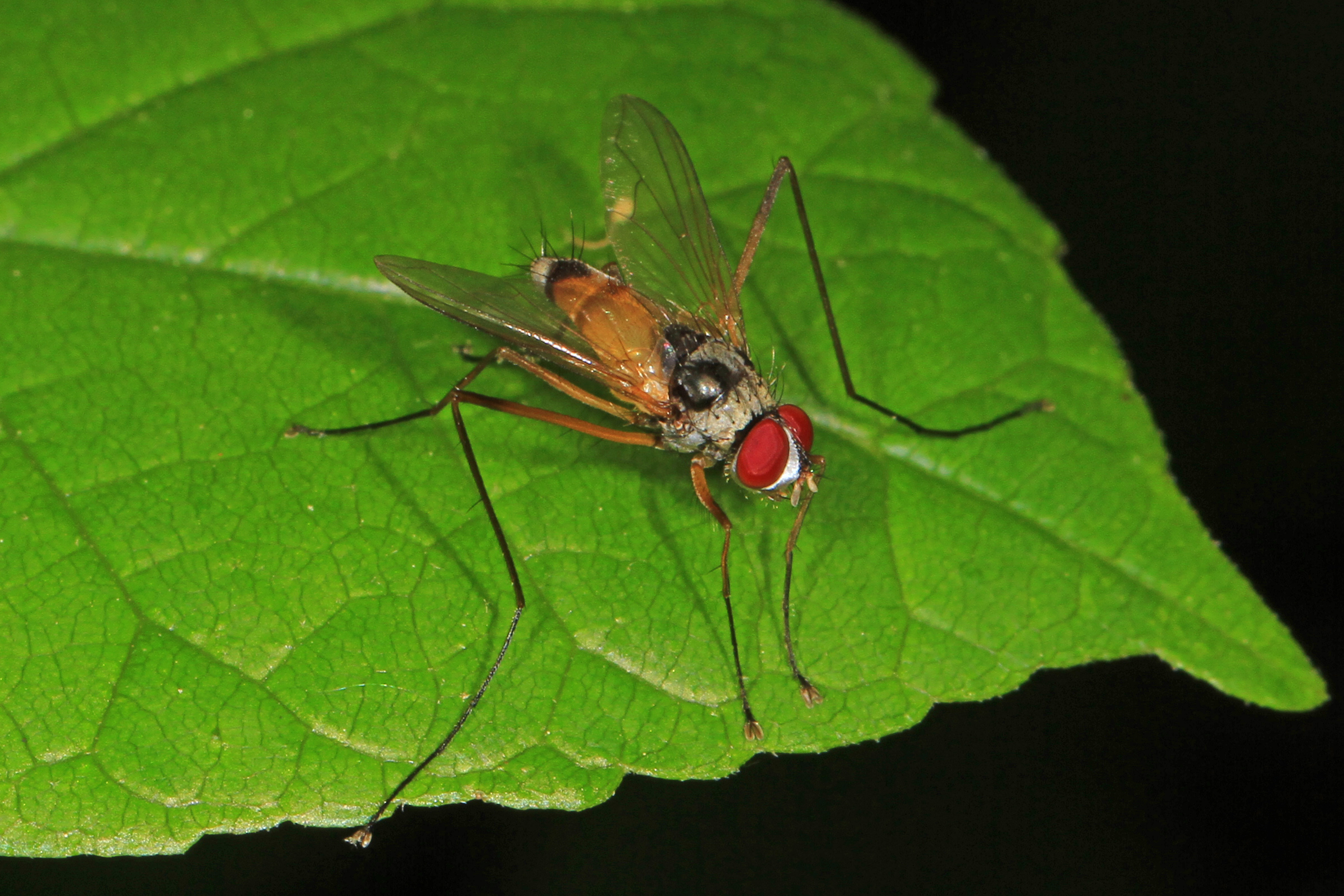 This middle leg pair of this fly are incredibly long.